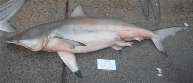 Graceful shark (Carcharhinus amblyrhynchoides) at Ranong Fishing Port, Thailand